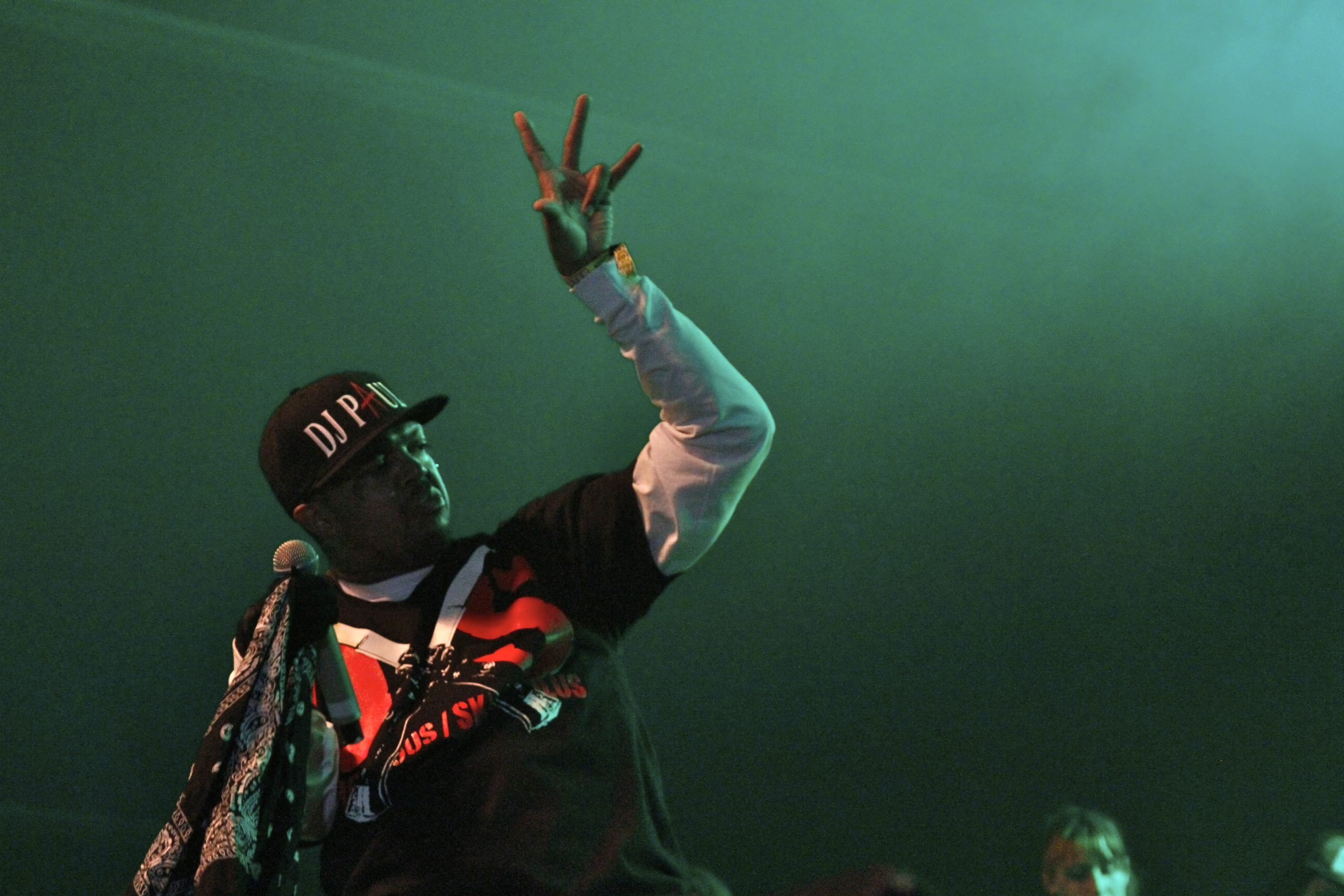 DJ Paul of Three 6 Mafia in a group show